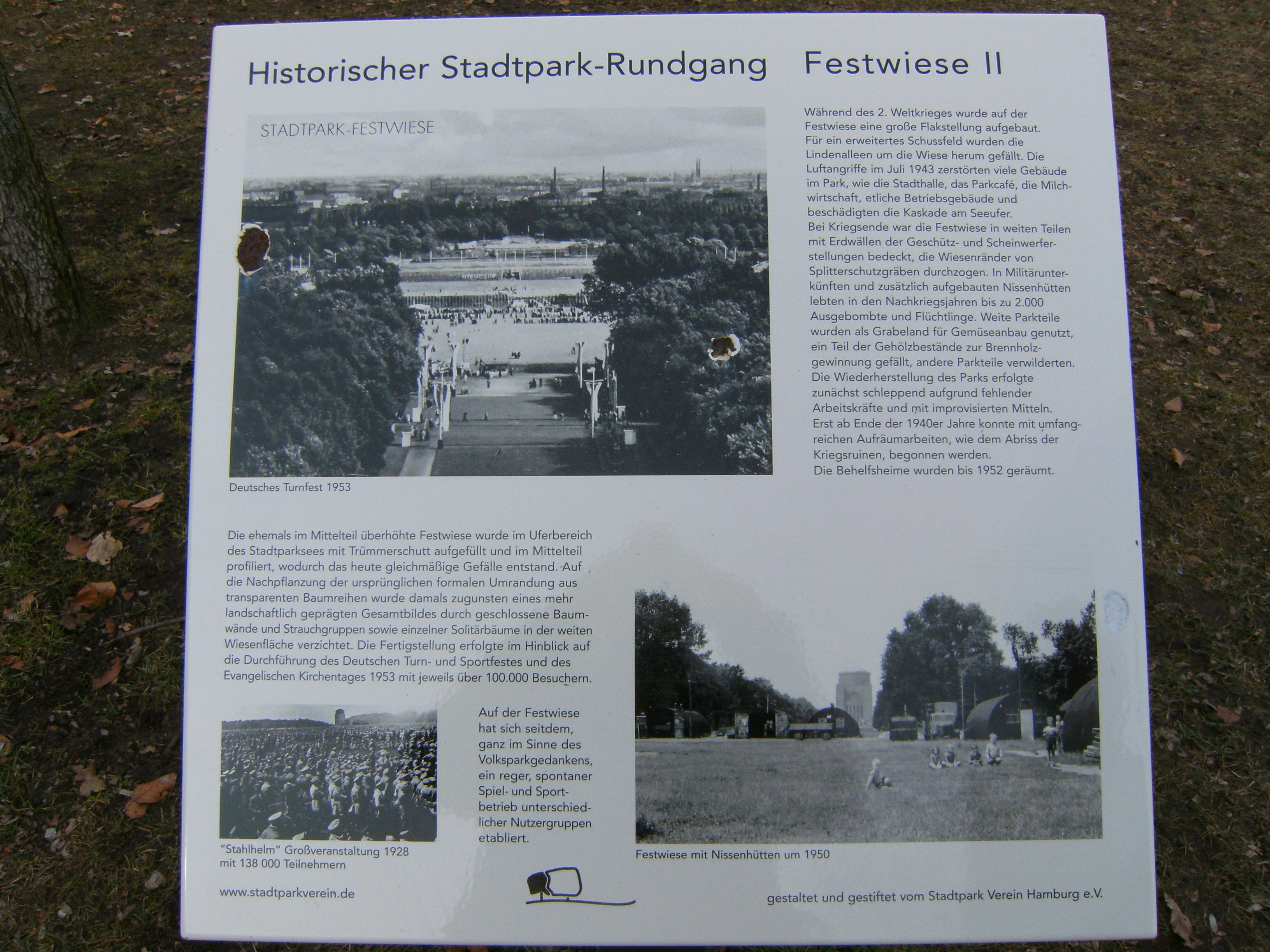 Plaque at Festwiese in Hamburg, Stadtpark, describing use of Stadtparkwiese in WW II and in the years after.